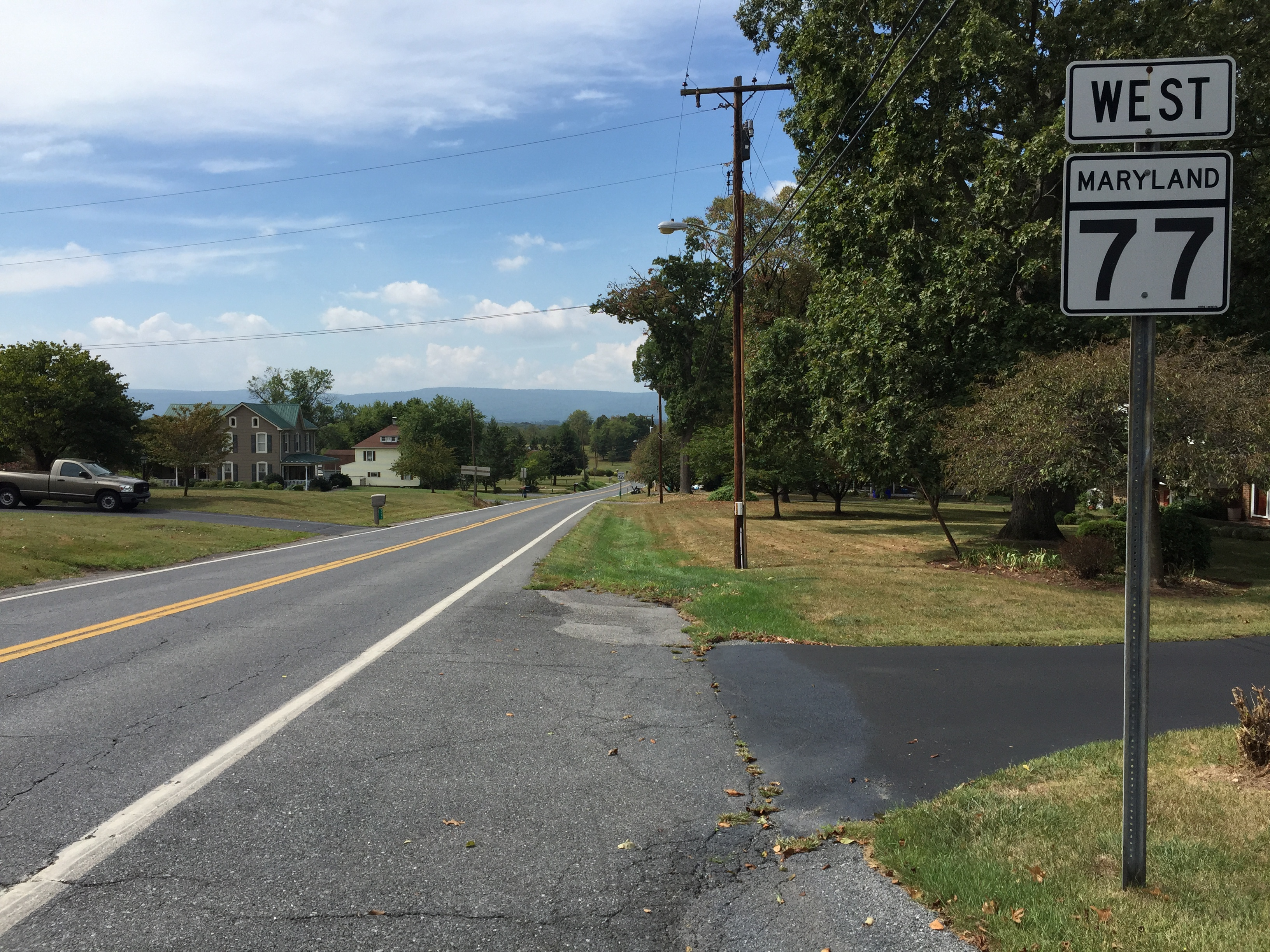 View west along Maryland State Route 77 (Rocky Ridge Road) just west of Maryland State Route 76 (Motters Station Road) in Rocky Ridge, Frederick County, Maryland